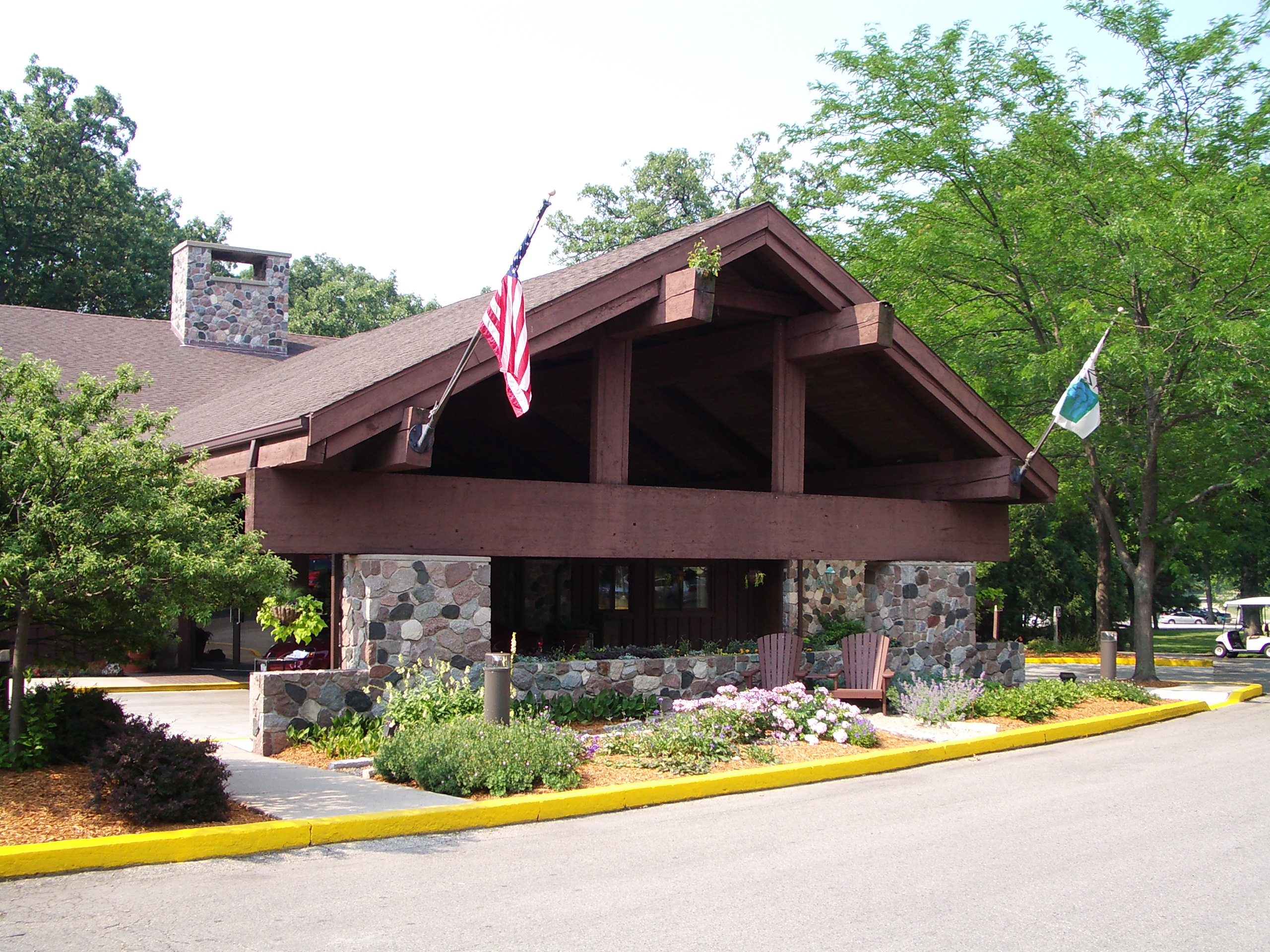 I took this photo of the resort's main lodge during the summer of 2005.